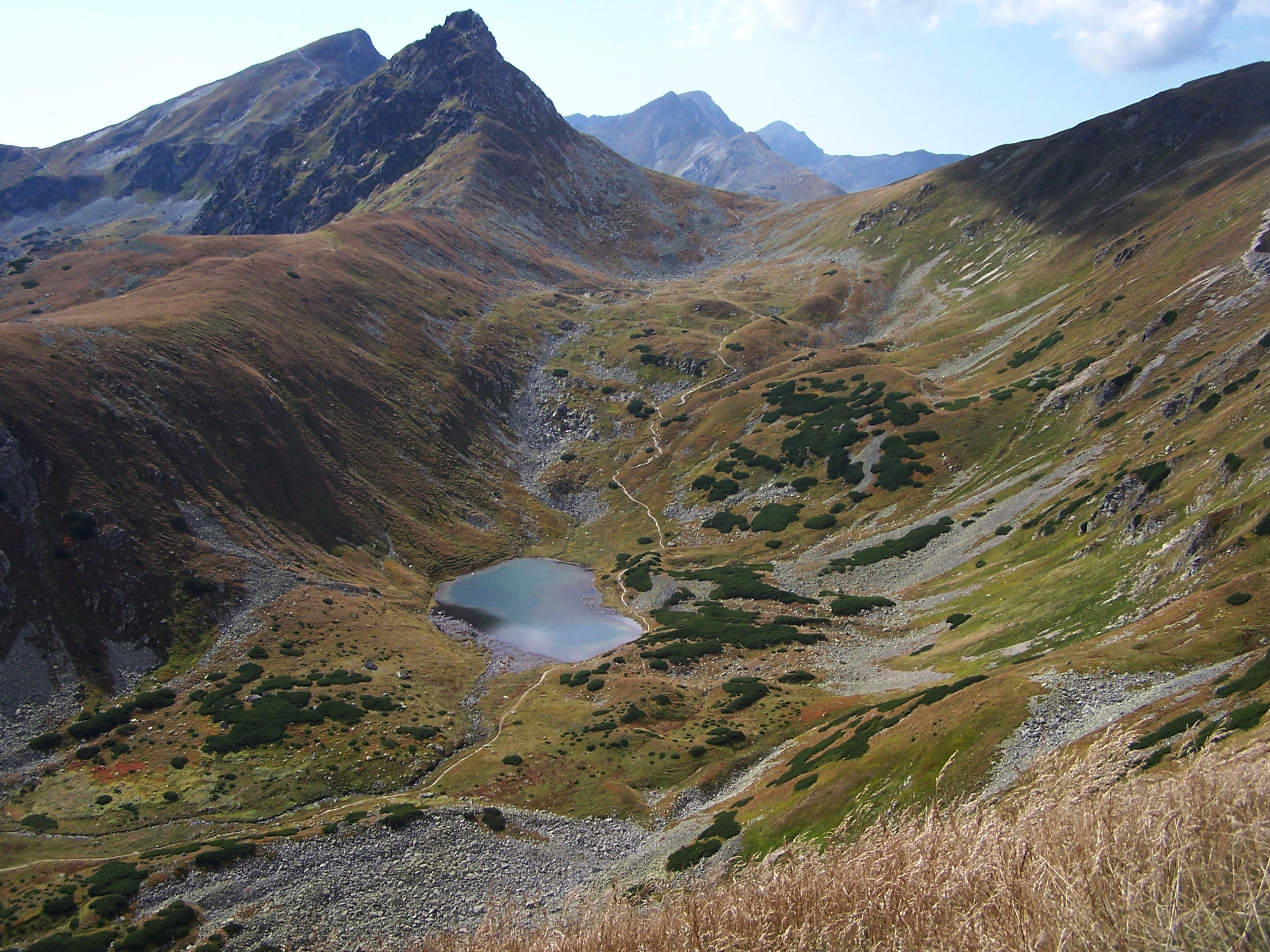 Rohacze, Jamnicka Dolina (West Tatra Mountains)